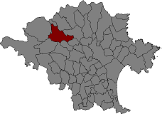 Location of Darnius in Alt Empordà